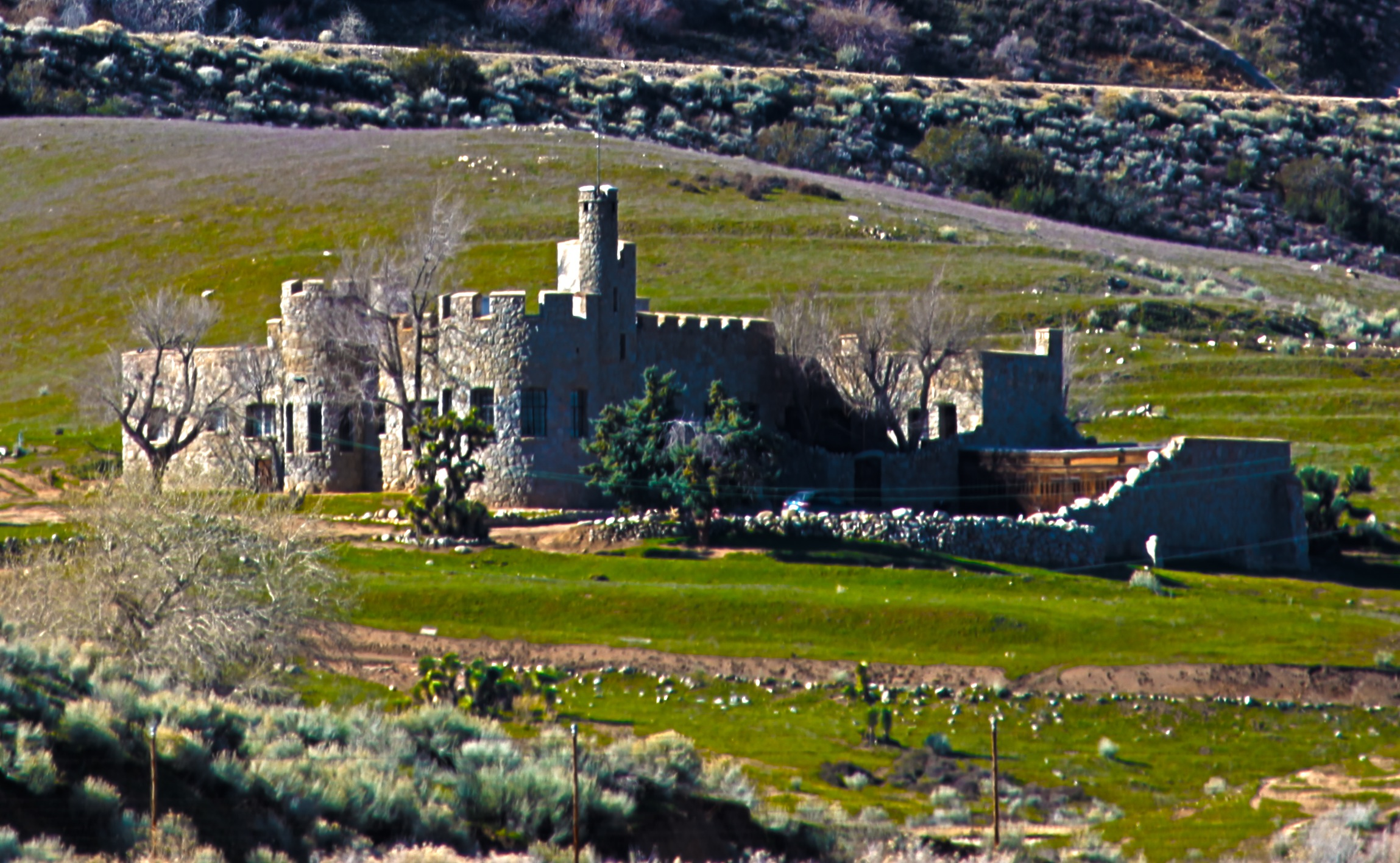 Located near Lake Elizabeth in West Lancaster is Shea’s Castle. Built in 1924 by a Richard Peter Shea, who only owned it for 5 years before the stock market collapsed and was forced out of it. Over the years it has been featured in TV shows and movies and has had many owners. It is currently being lived in.